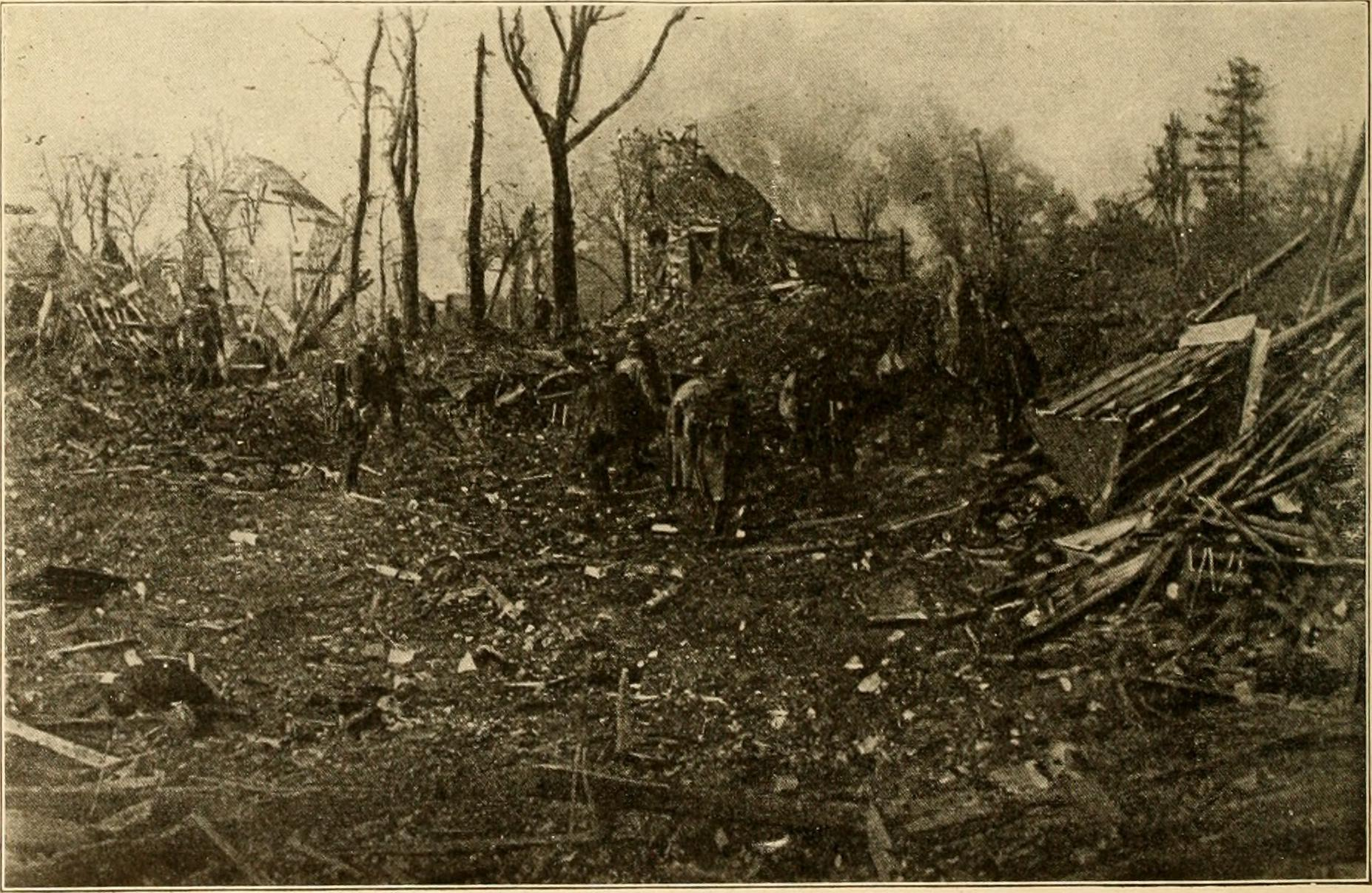 Title: The people's war book; history, cyclopaedia and chronology of the great world war Year: 1919 (1910s) Authors: Miller, J. Martin (James Martin), b. 1859 Canfield, Harry S. (from old catalog), joint author Plewman, William Rothwell, 1880- (from old catalog) Foch, Ferdinand, 1851-1929 Lloyd George, David, 1863-1945 United States. President (1913-1921 : Wilson) Subjects: World War, 1914-1918 World War, 1914-1918 Publisher: Cleveland, O., The R.C. Barnum co. Detroit, Mich., The F.B. Dickerson co. (etc., etc.) Text Appearing Before Image: ried away to the woods to make achange and hide my uniform. I had arranged to remain in uniform until mypilot was on his way back to our lines, so I couldexplain my presence if surprised by any Austriansoldiers. I knew that once I was disguised as apeasant workman I was comparatively safe. I remained in the woods all night. Early in themorning, seeing my plane had returned home, Idonned my peasant costume and hid my uniform in asafe spot. Of course, I had arranged to send backInformation to my commander, both by codes whichcould be picked up by our observers when they flewover the Austrian lines and by carrier pigeons. By arranging strips of white cloth on the groundin various ways I was able to convey informationto our observers, and every night our aeroplanesdropped carrier pigeons in little cages in the vil-lages behind the enemy lines. I was able to getat least one of these pigeons every day, for I mademy presence known to friends in these villages andthey brought the birds to me. Text Appearing After Image: Battle of Cantigny. FACTS, STORIES AND INCIDENTS 387